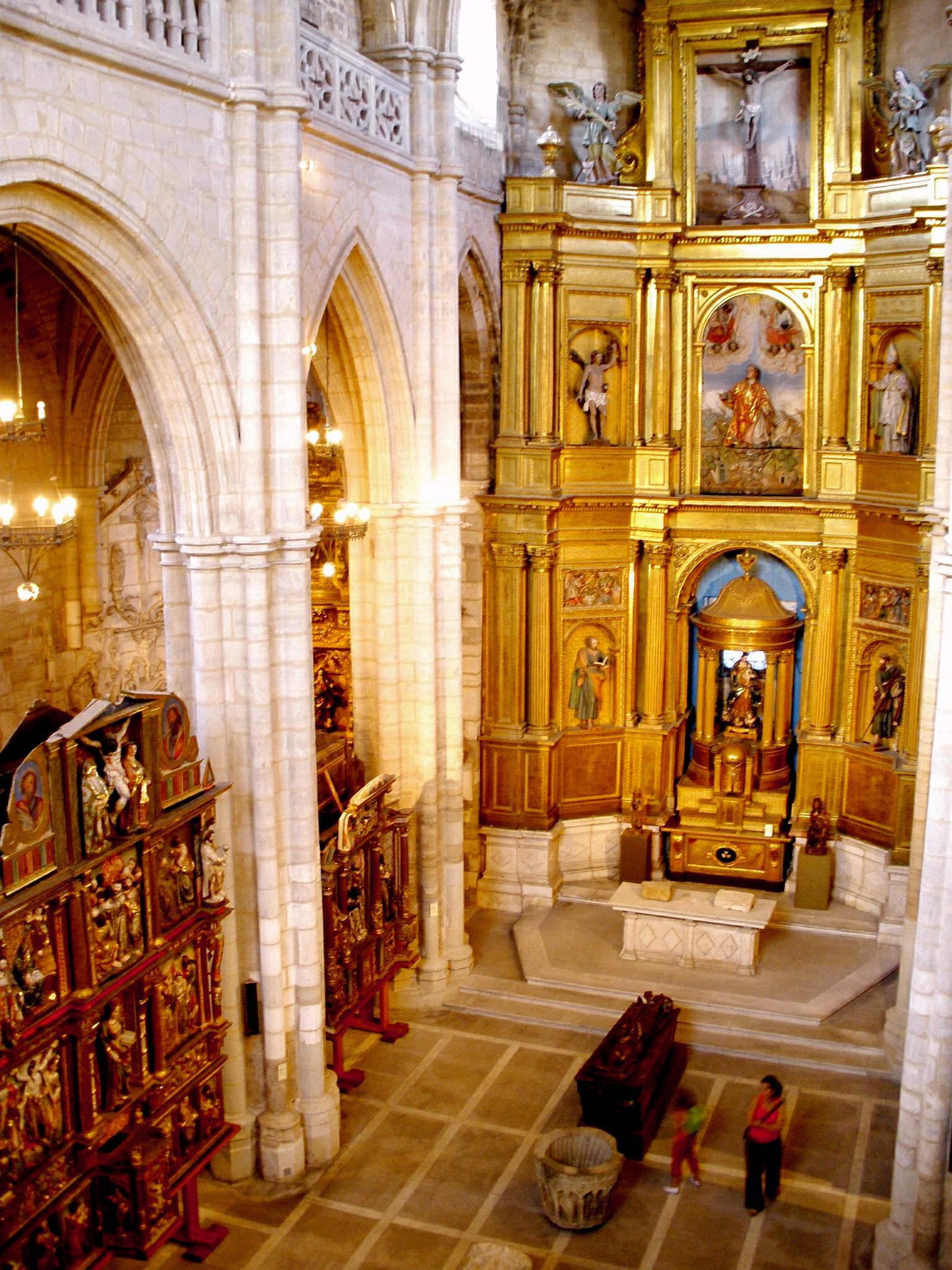 Nave y retablo mayores de la iglesia de San Esteban (Museo del Retablo) de Burgos, España